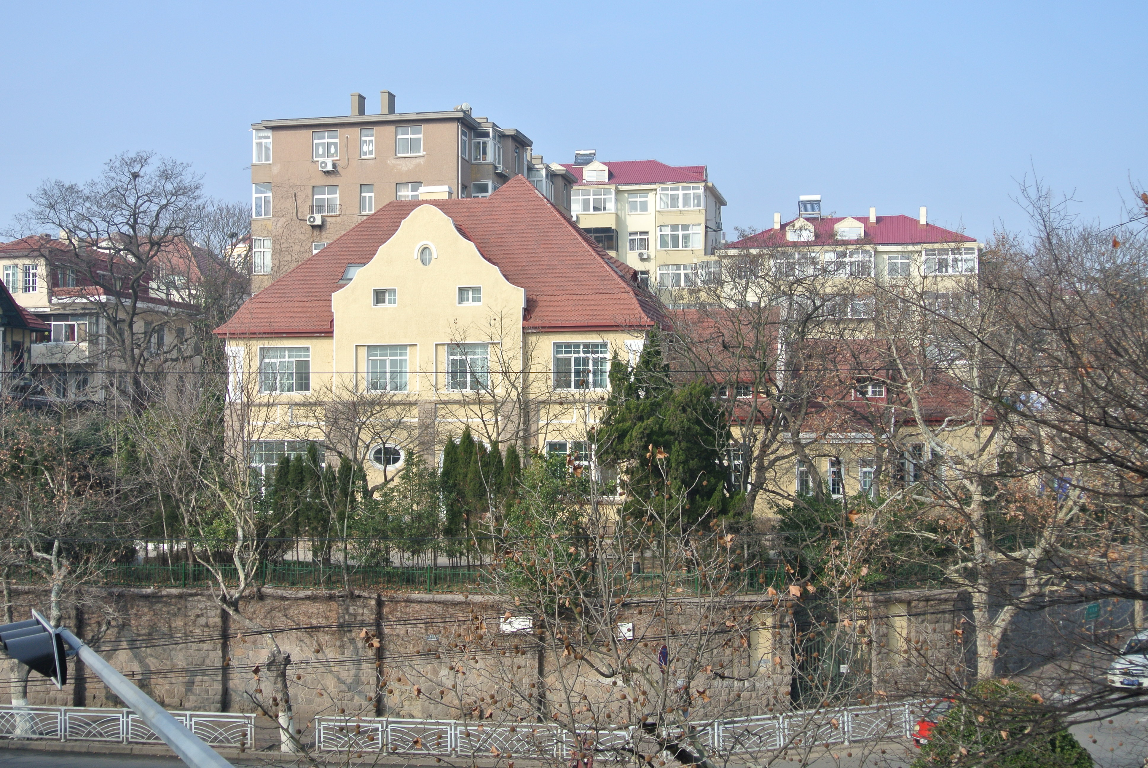 Former American Consulate in Tsingtao